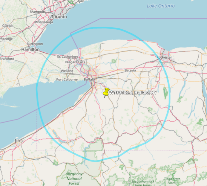 Broadcast area map of Buffalo station WTSS. FCC data overlayed on an Open Street Map. Data itself is public domain, map is open sourced, tagging as CC-by.